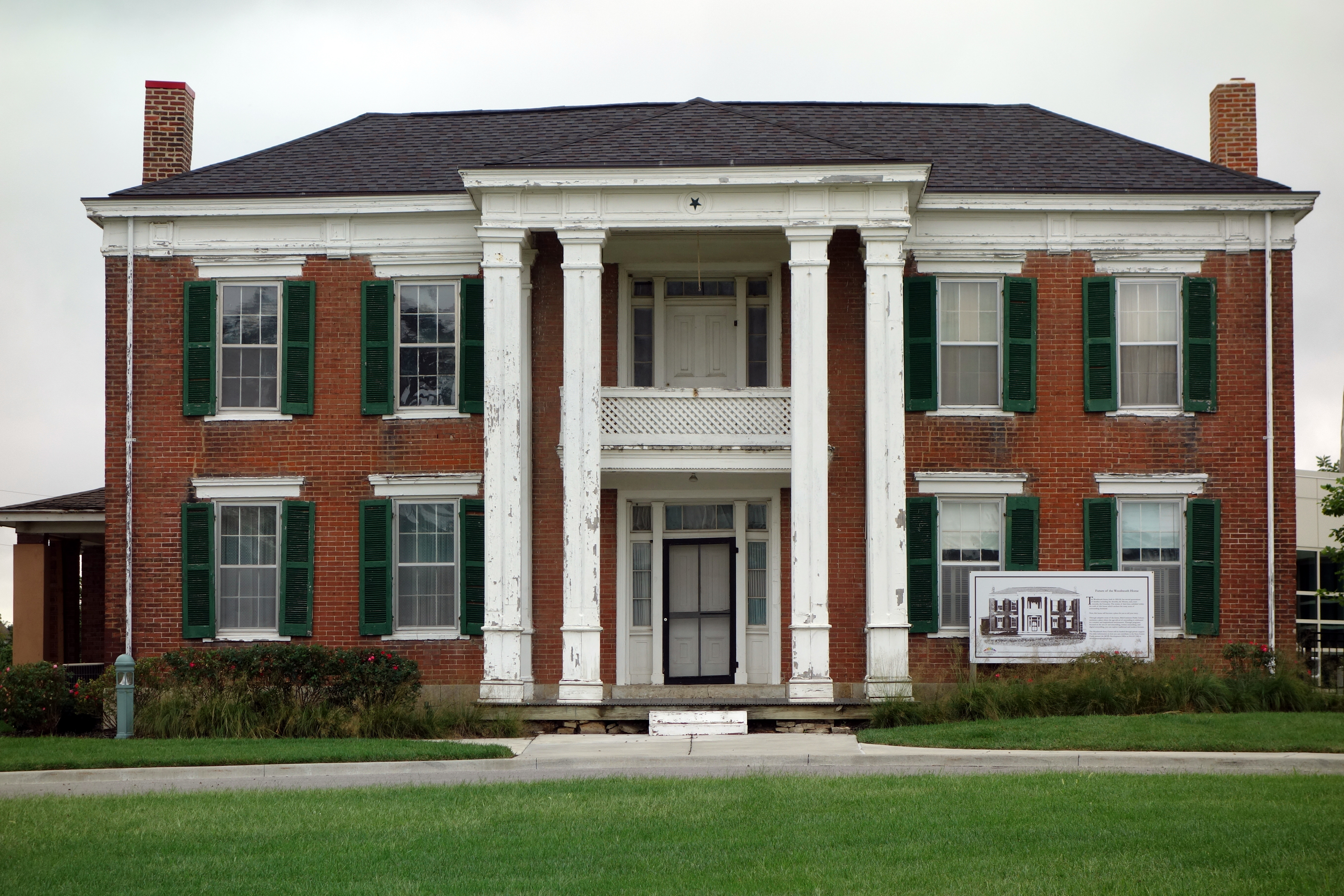 Front of the Woodneath Home, within the Elbridge Arnold Homestead (Woodneath), Kansas City, Missouri.